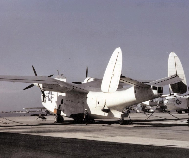 U.S. Navy Martin PBM-3S Mariner of patrol squadron VP-214 at Naval Air Station Norfolk, Virginia (USA), in 1944.